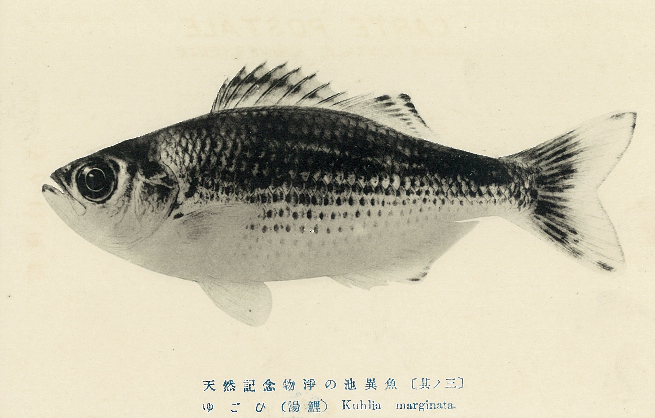 Jono-ike pond postcard. Spotted flagtail.1936